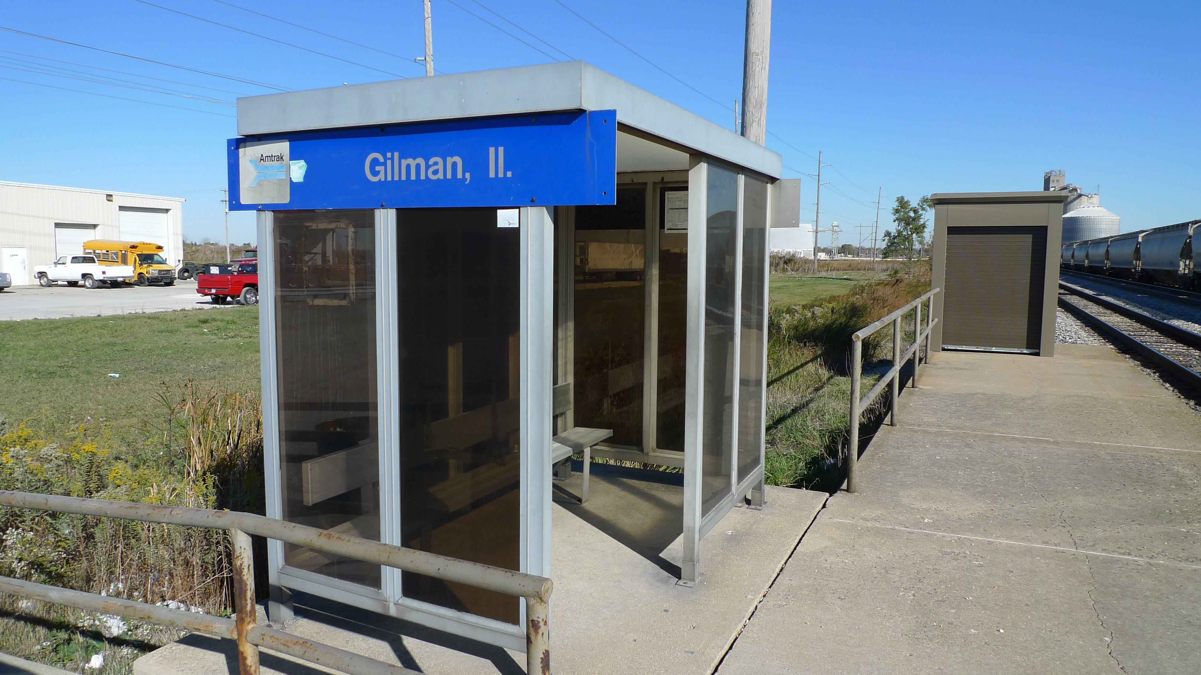 Gilman shelter